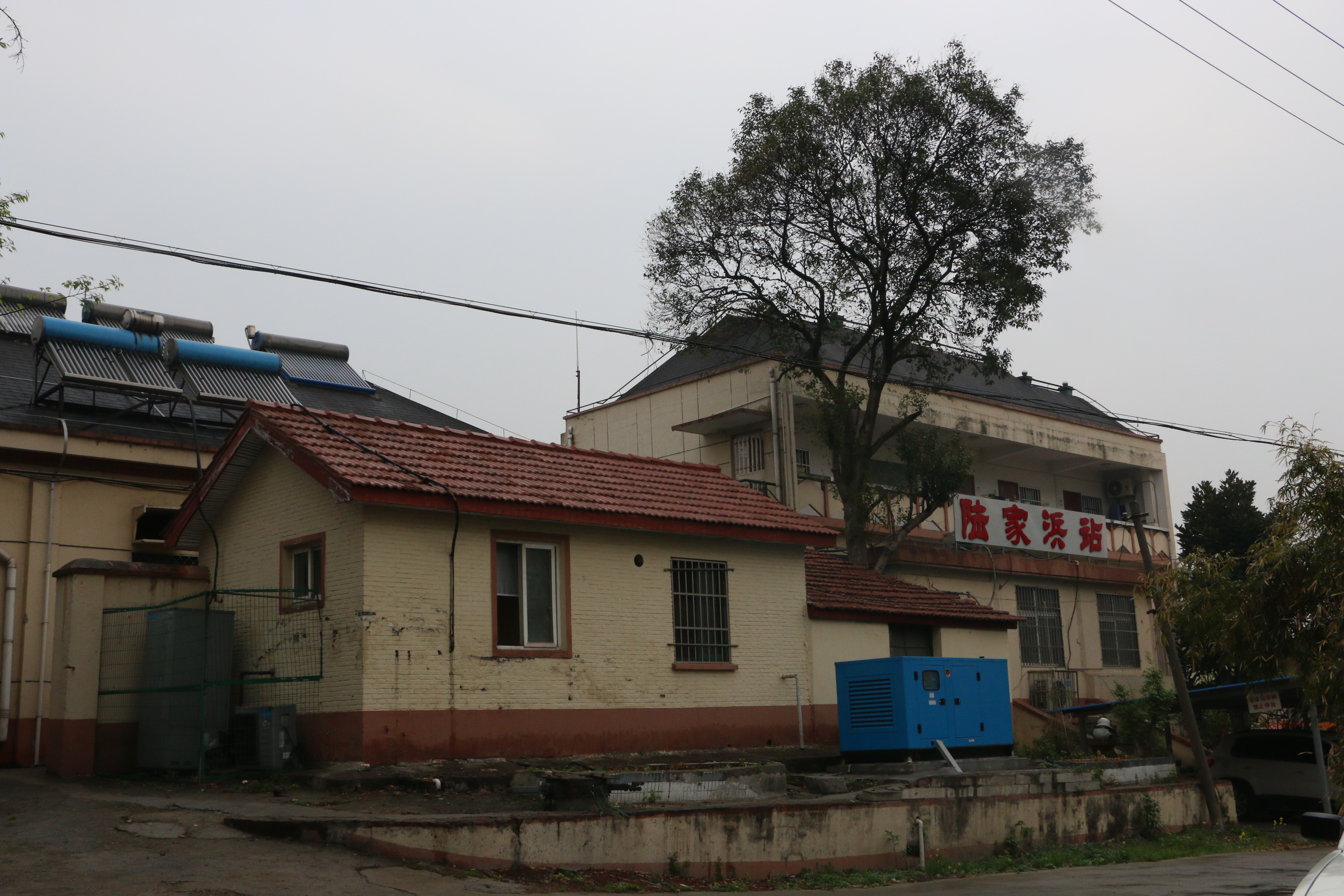 201604 Facade of Lujiabang Station